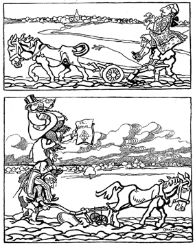 Antisemitic picture. The farmers opressed before the French Revolution by the nobility, and after by Jews, Freemasons and Capitalists.